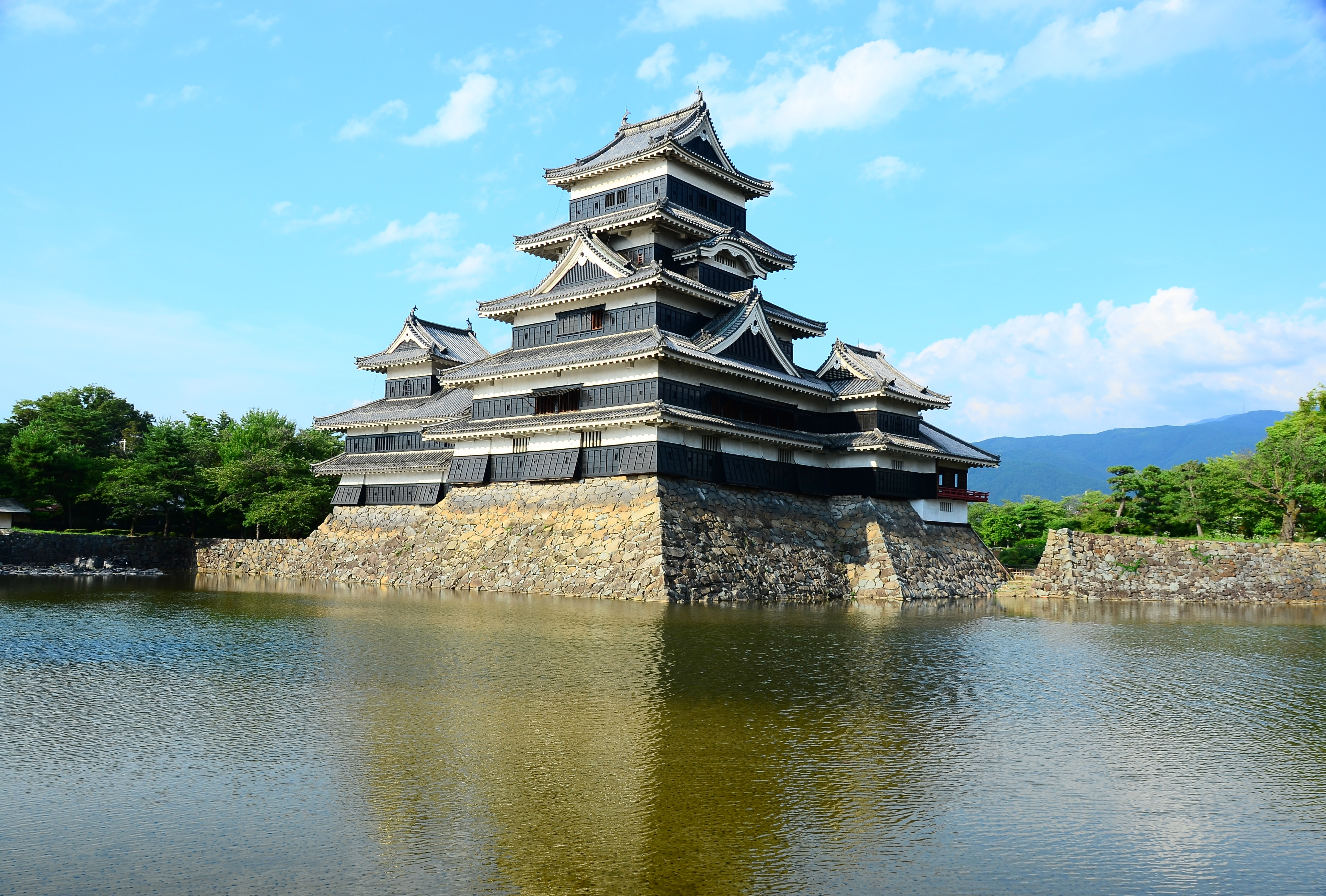 Matsumoto castle in Matsumoto, Nagano prefecture, Japan.